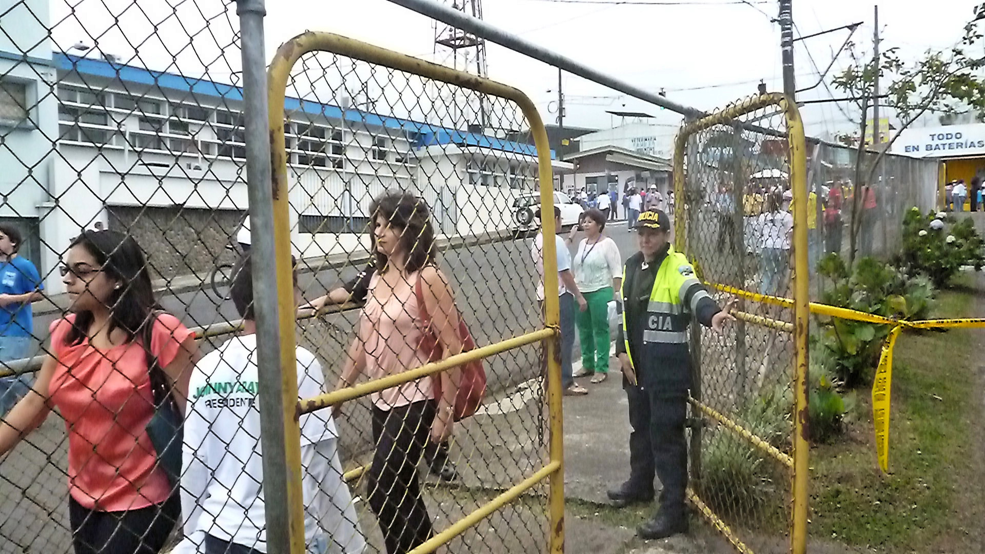 Police at Quesada during Costa Rican general election, 2014.